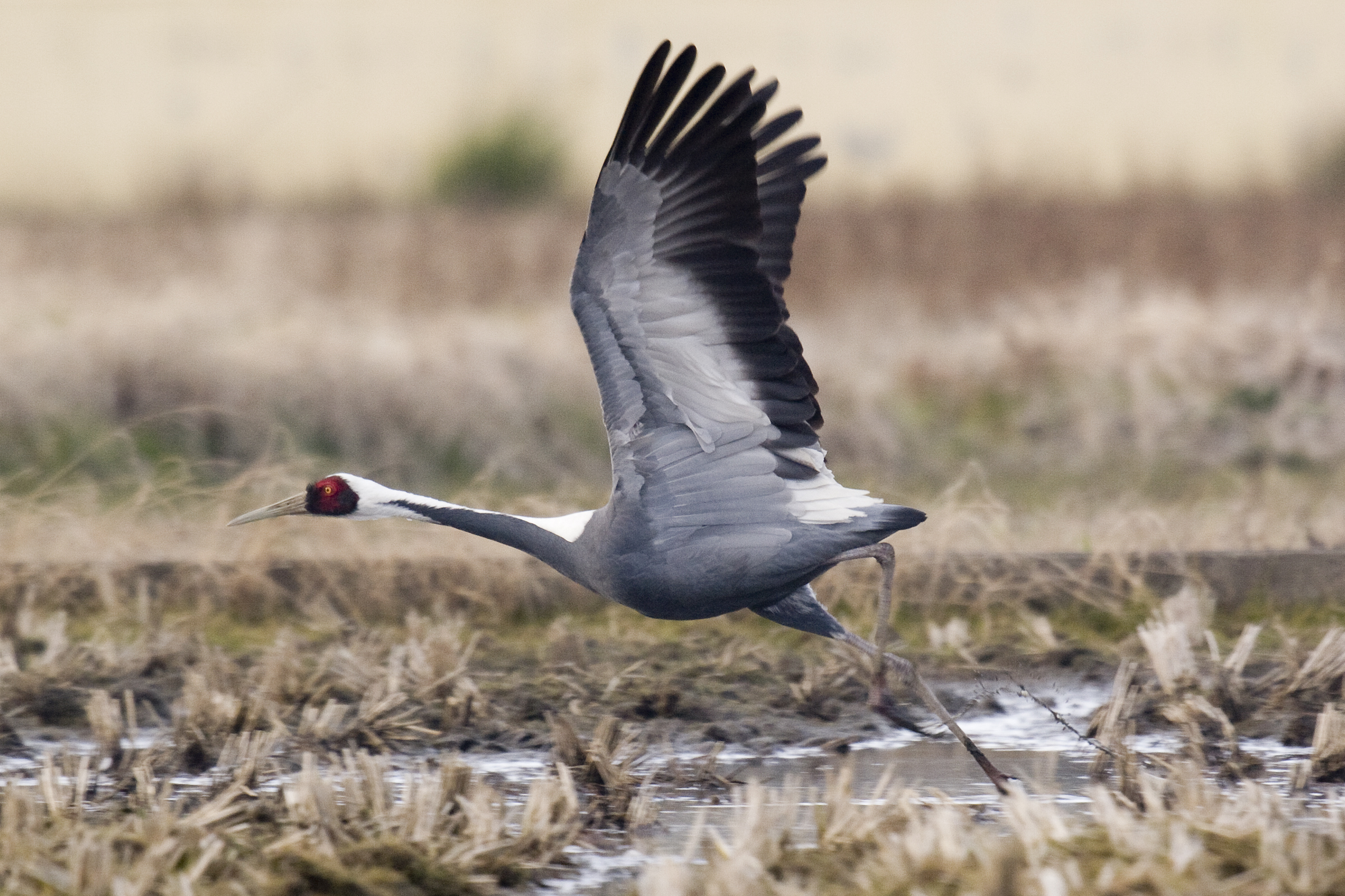 White-naped Crane at Saijo,Ehime